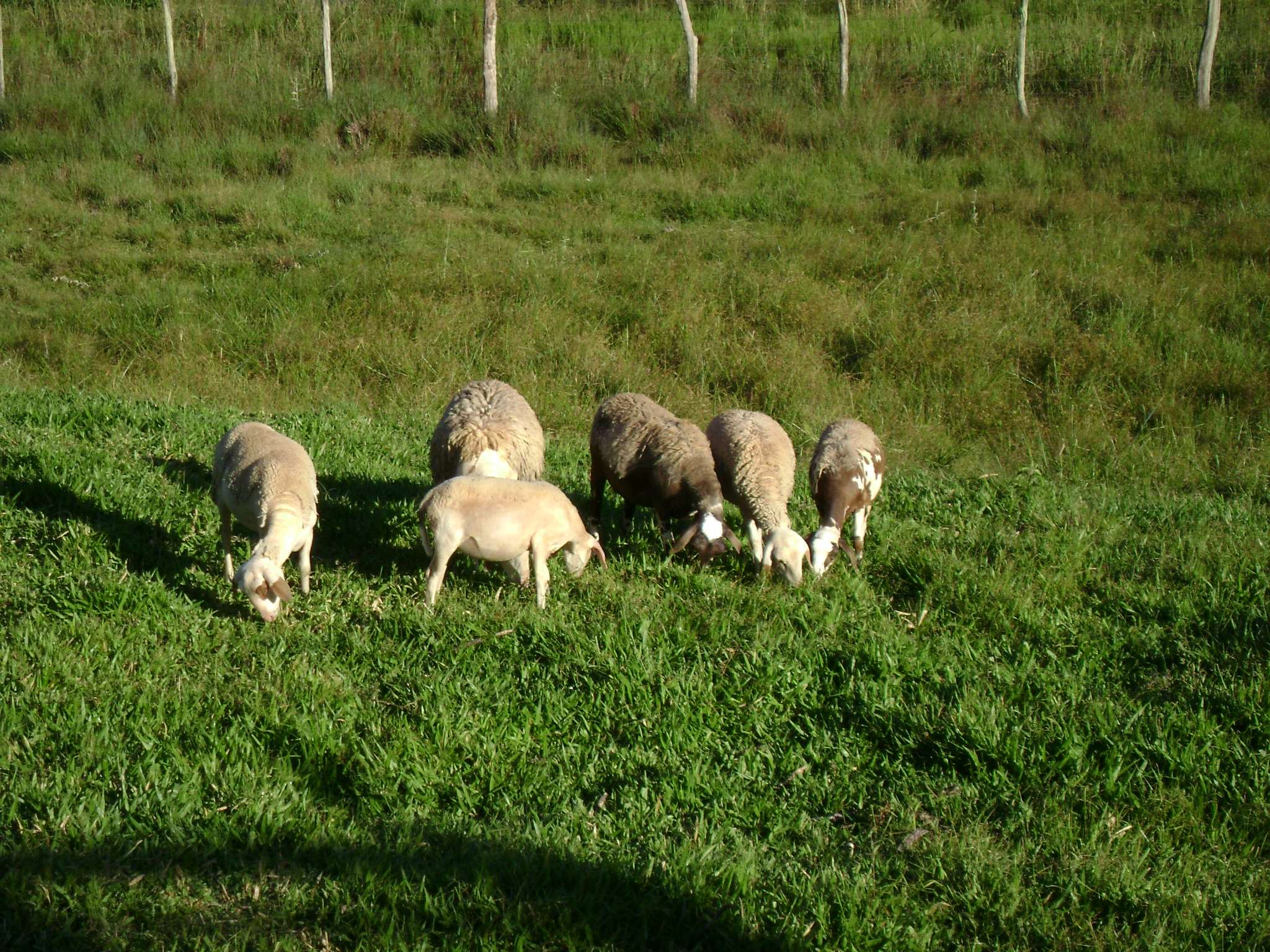 Sheep